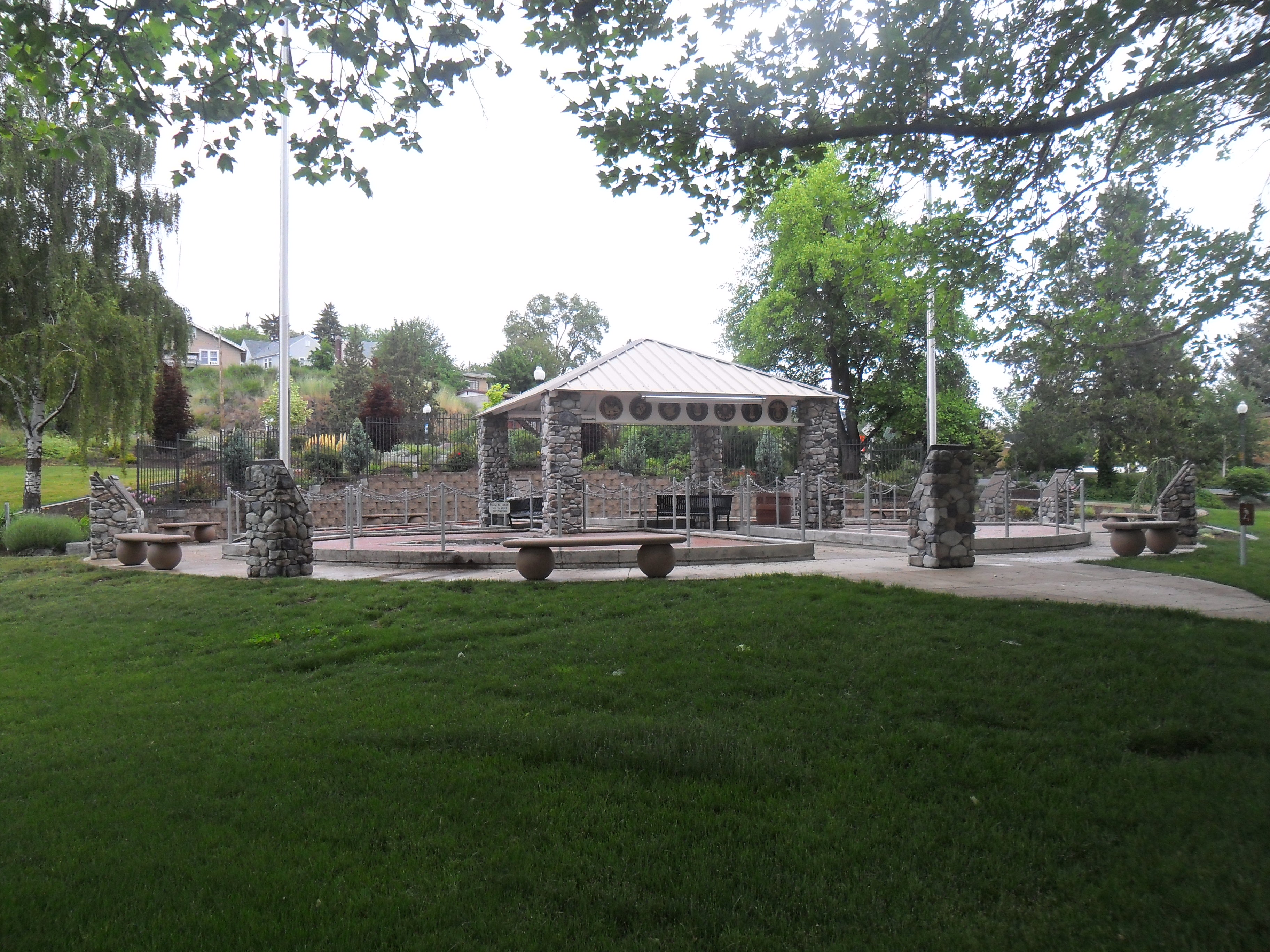 Veterans Memorial Park tribute and covered pavilion, Klamath Falls, Oregon.